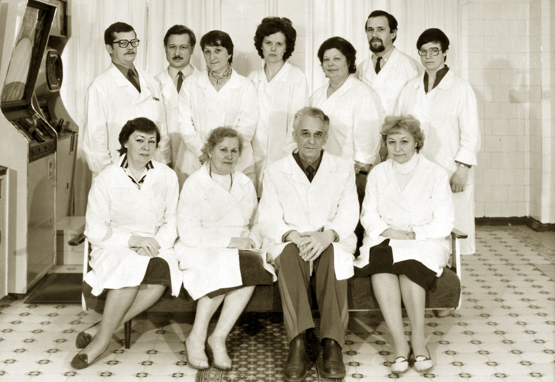 Kliorin A. I. MD. Major-general, professor of Pediatrics.